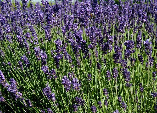 Lavandula angustifolia: Massive flowering